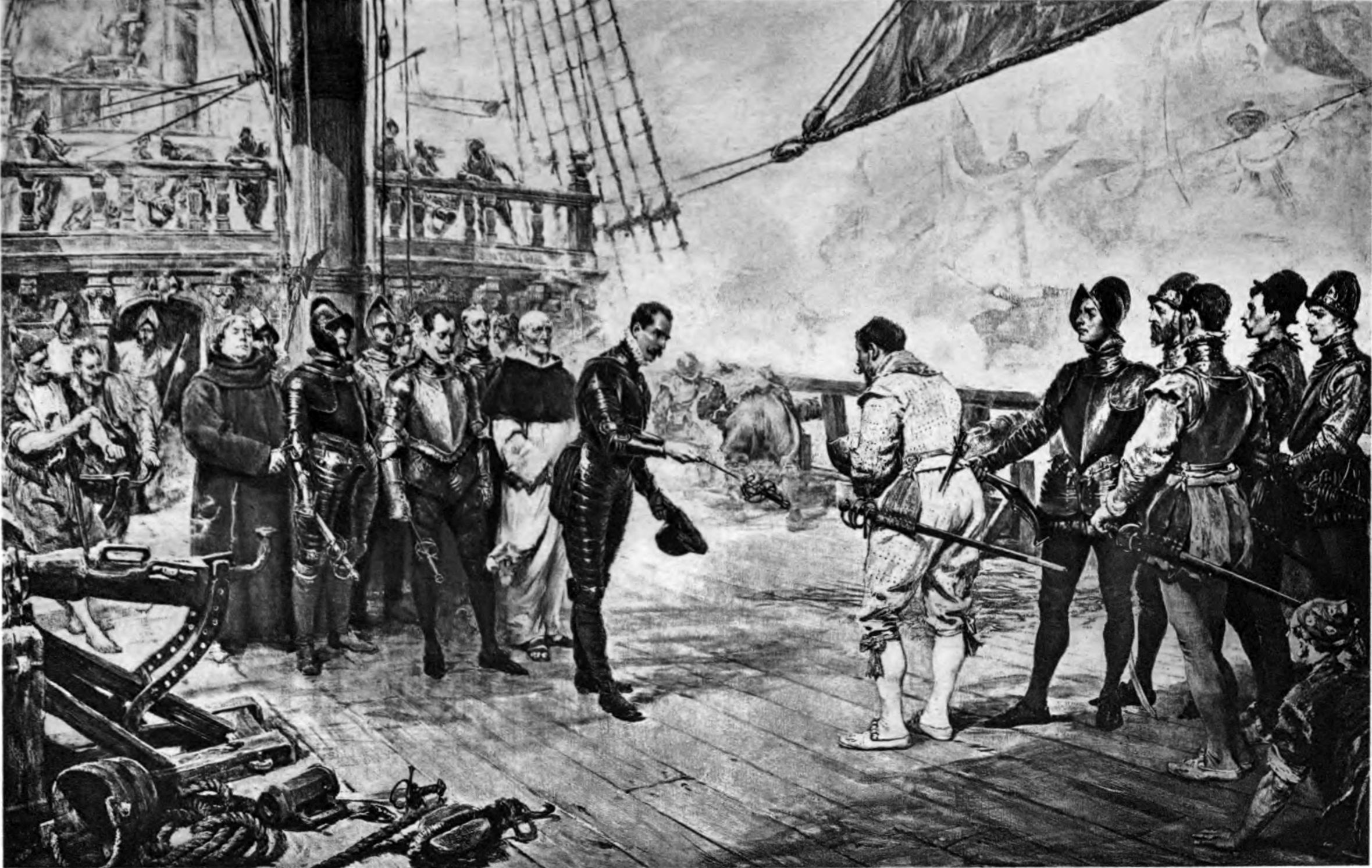 THE ADMIRAL OF THE SPANISH ARMADA SURRENDERS TO DRAKE.